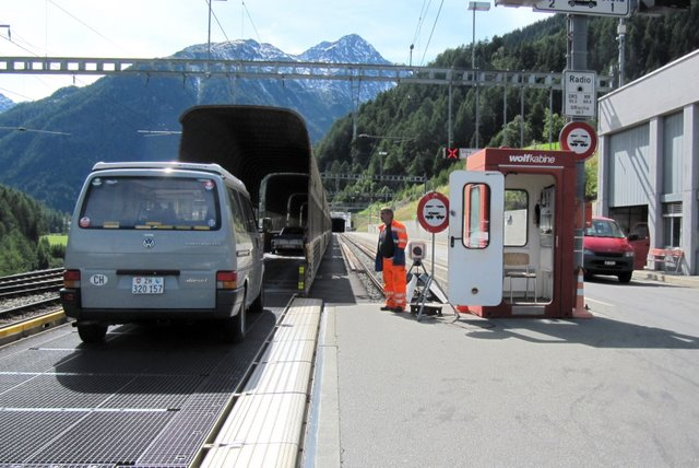 Entry to the Vereina tunnel-train in Sagliains (Switzerland)